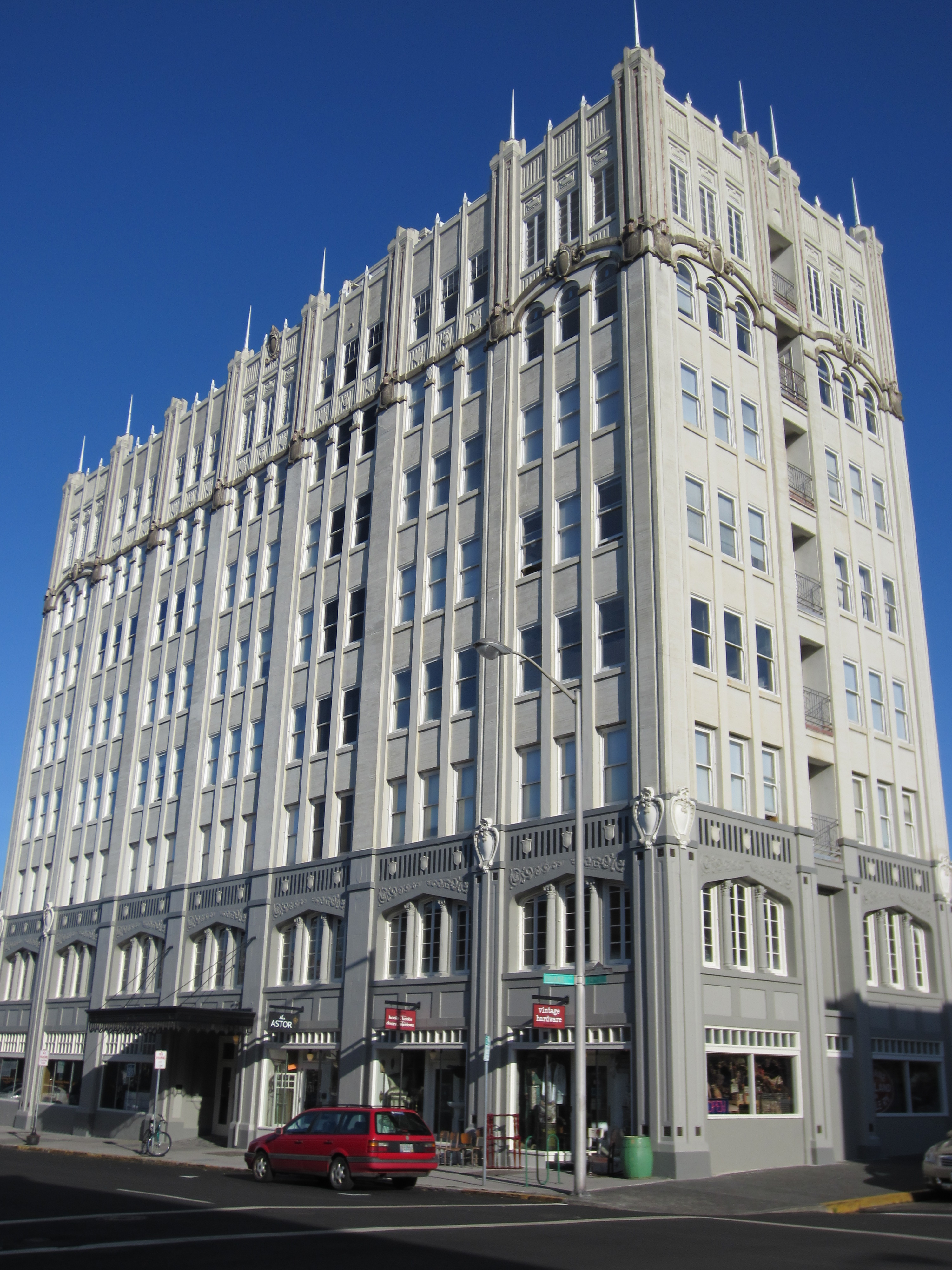 John Jacob Astor Hotel in Astoria, Oregon in December 2011